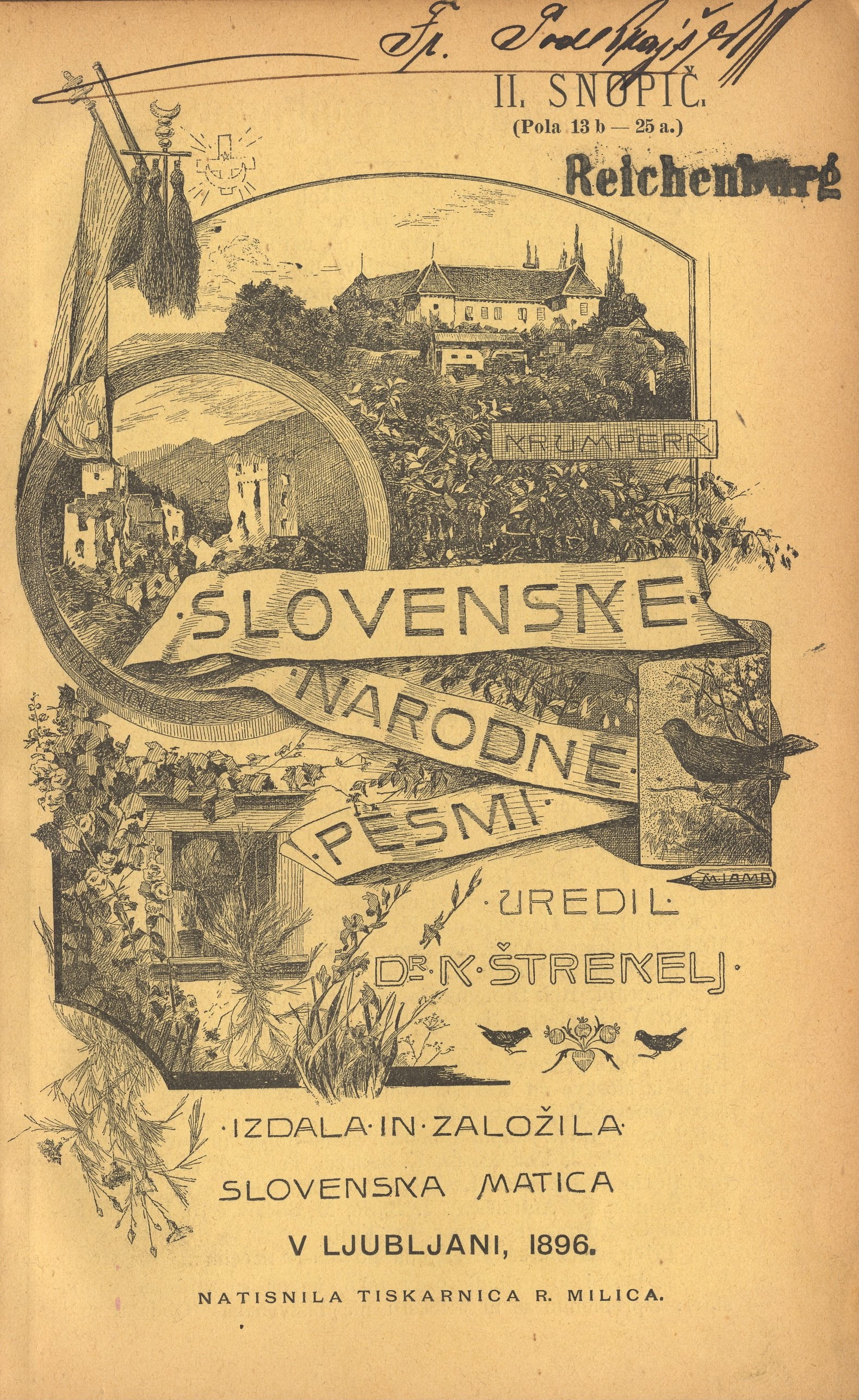 Slovenske narodne pesmi by Karel Štrekelj.